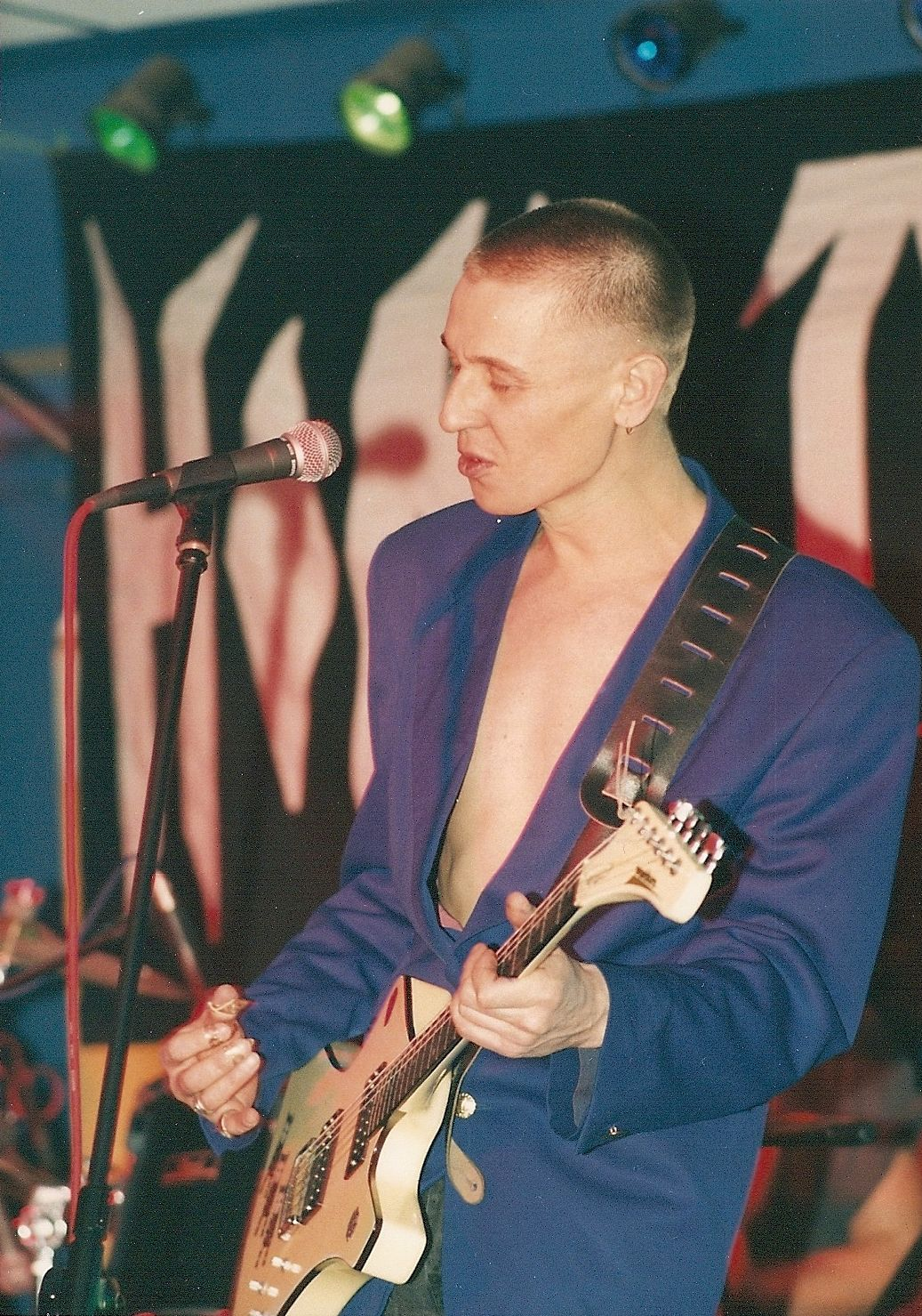 Maciej Maleńczuk in Homo Twist concert at Proxima Club